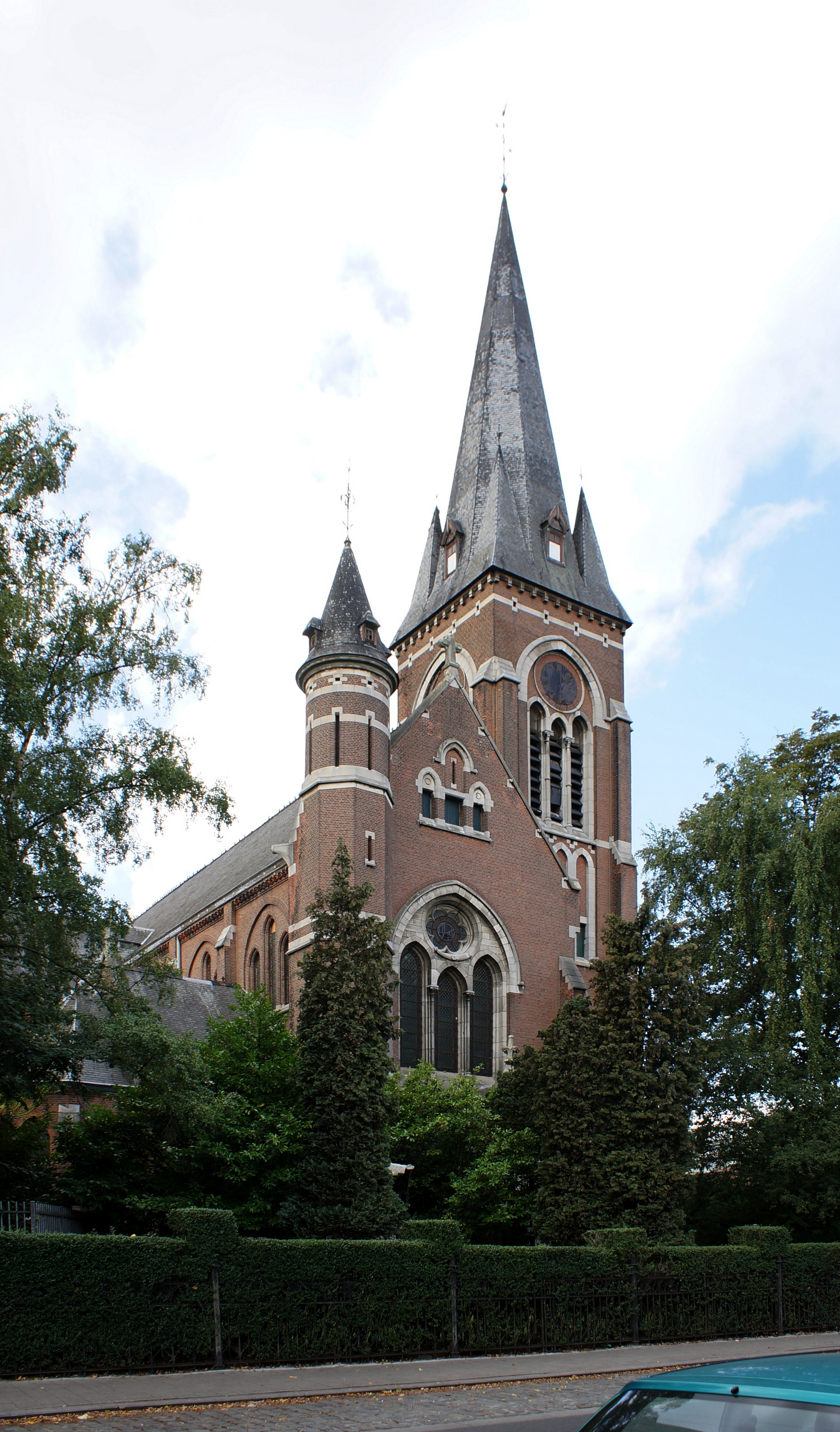 Church of the Sacred Heart (Hoboken) - Front view - The oeuvre of the architects Triphon De Smet & Frans Van Rompaey